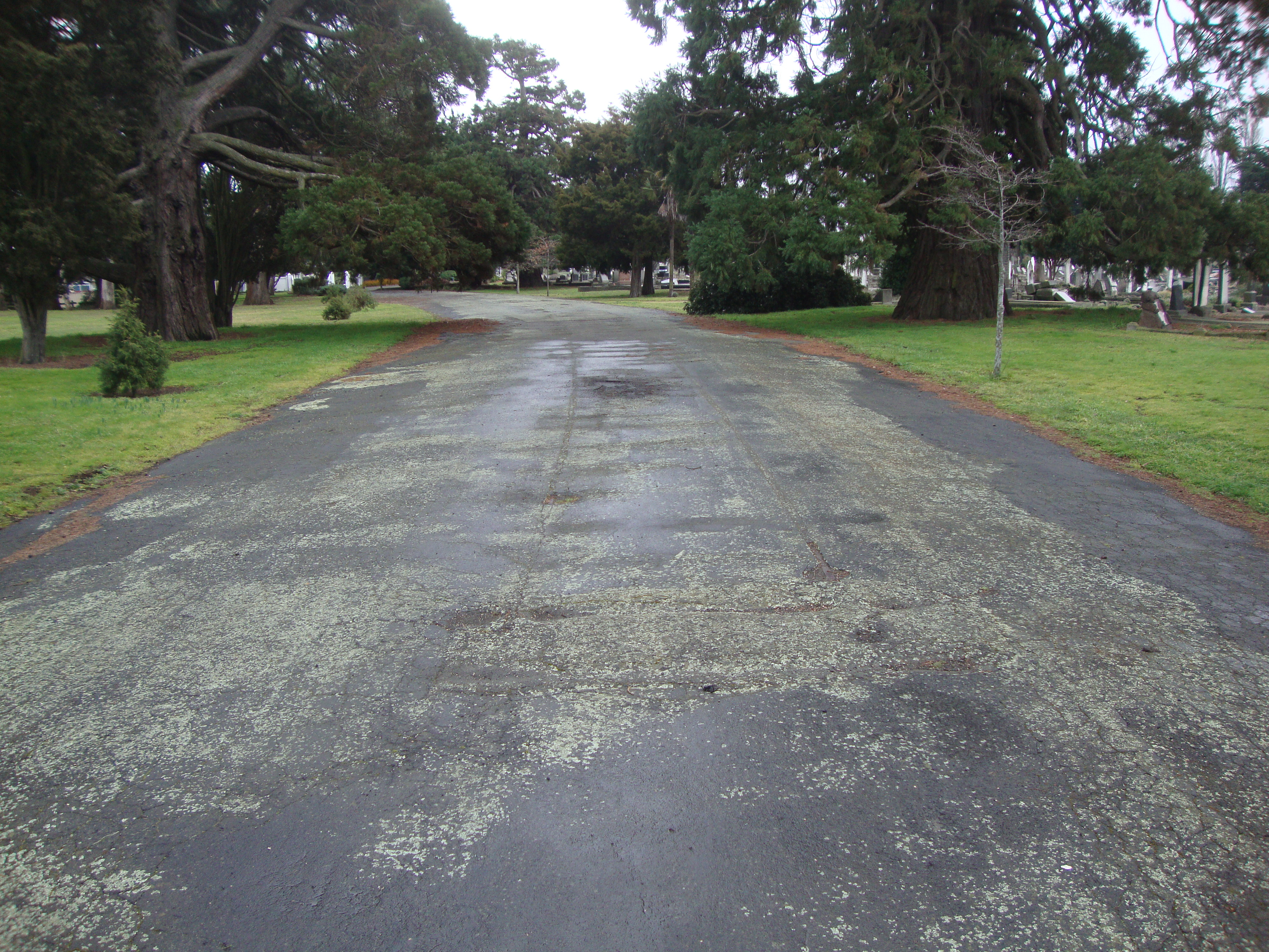 Old tram tracks visible (just) under the seal of this driveway in Linwood Cemetery, Christchurch.